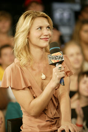 Claire Daines at MuchMusic, for the program MuchOnDemand, to promote the film Stardust.